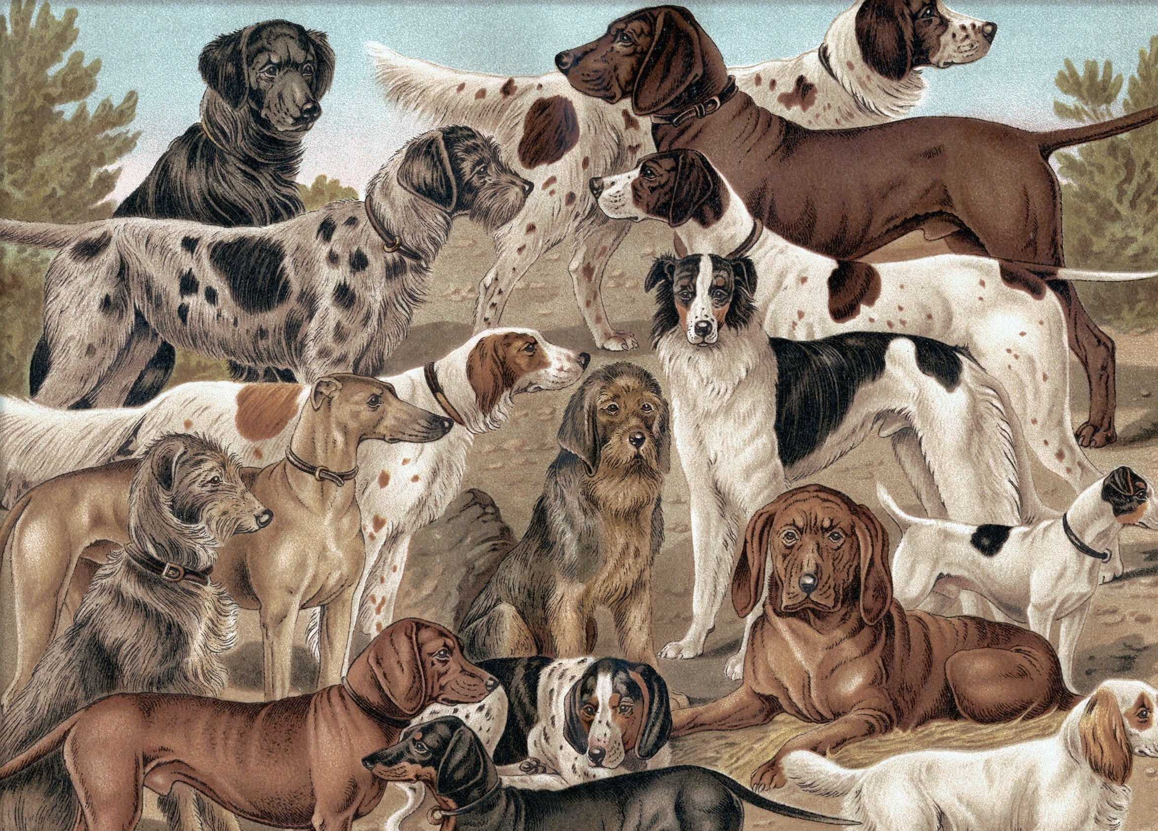 Breeds of dog from The Yuzhakov's Bolshaya Enc. (1904)